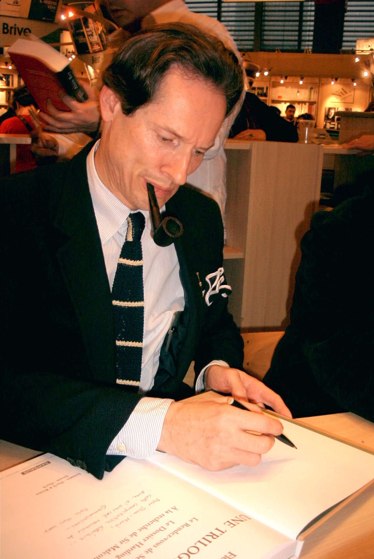 Floc'h